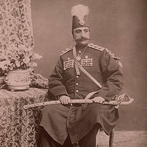 Nāser ad-Dīn Schāh (Picture: Georgian National Museum)